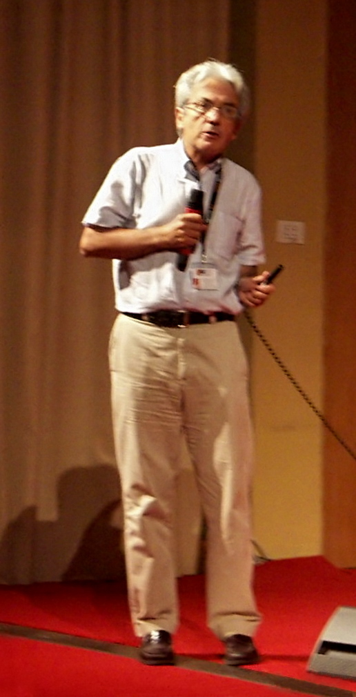 Albert Fert giving a scientific talk at the Conference of "Electronic Properties of Two-Dimensional Systems" (EP2DS) in Genova, Italy on July 20th, 2007.